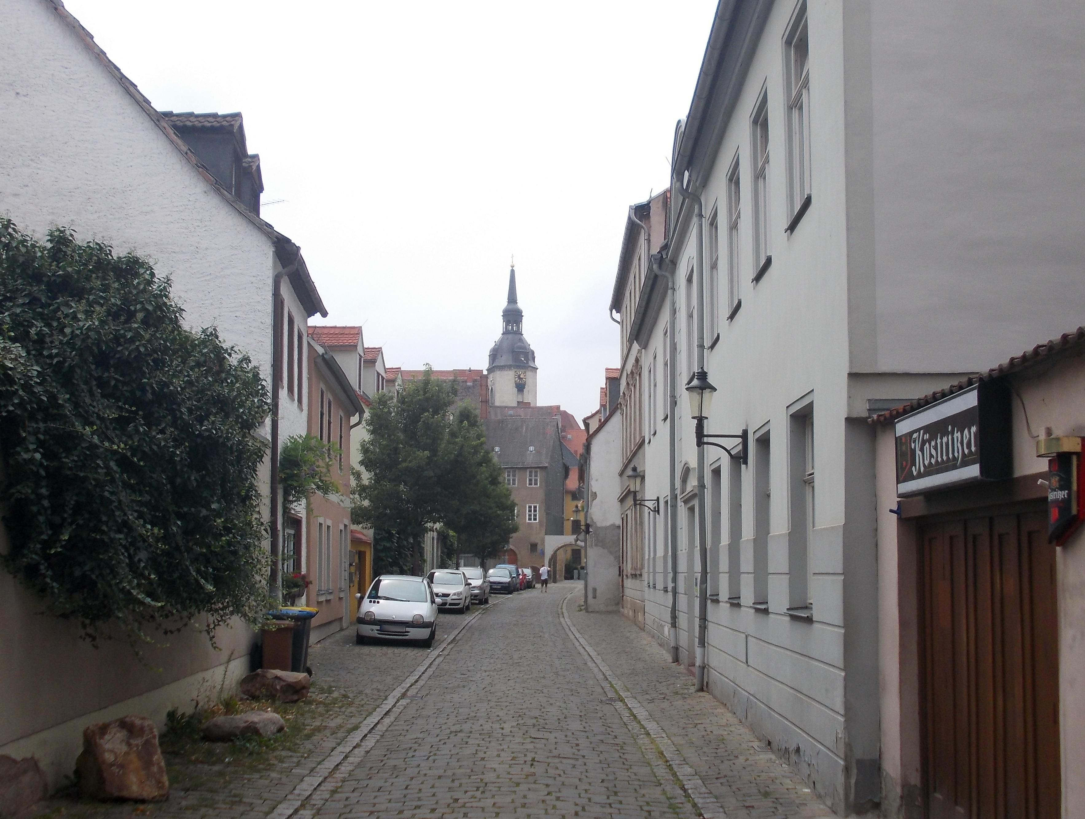 Fischgasse in Naumburg (district: Burgenlandkreis, Saxony-Anhalt)